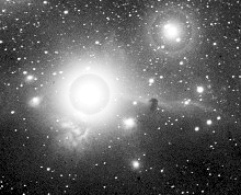 IC 434, Horsehead Nebula